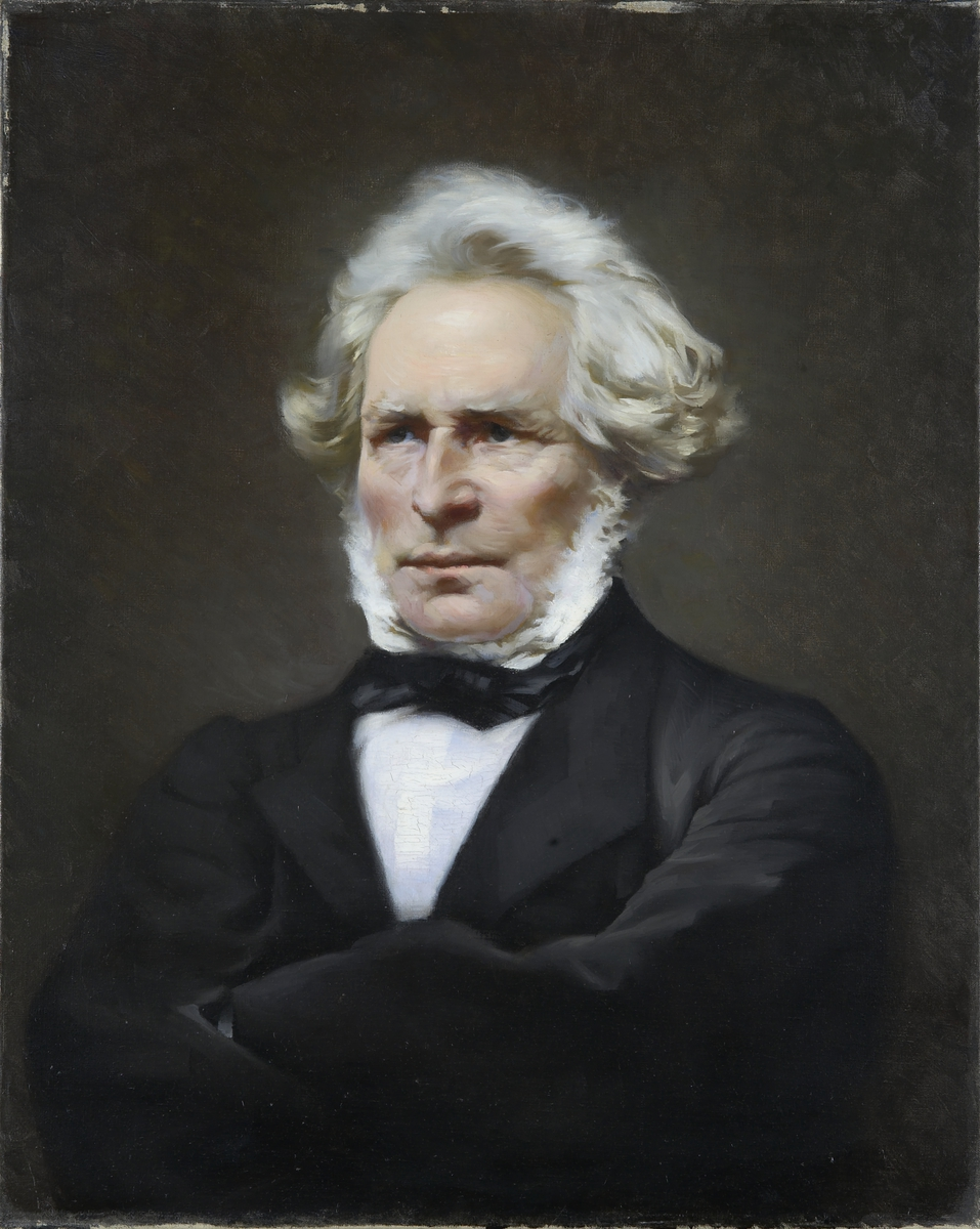 Portrait of Georg Prahl Harbitz, 1917. Probably after a photograph from ca. 1870.